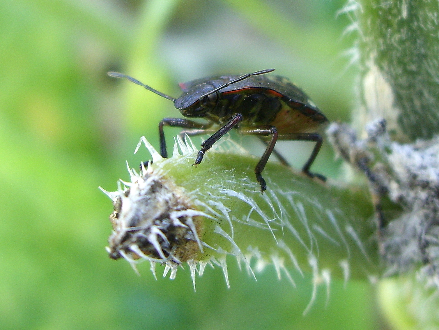 Nezara viridula damages shoot of cucumber 2010